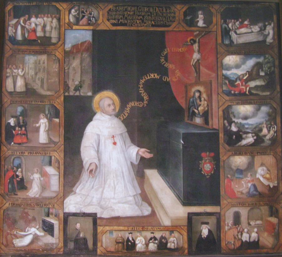 Painting of blessed Michał Giedroyć receiving a vision from the crucified Jesus and twelve other scenes. On the left, the scenes are from his life. On the right, the scenes are about his posthumous miracles. At the bottom, there are two figures of nobles sponsoring the effort and five saints who lived in Kraków in the 15th century. The painting hangs in the St. Mark's Church in Kraków